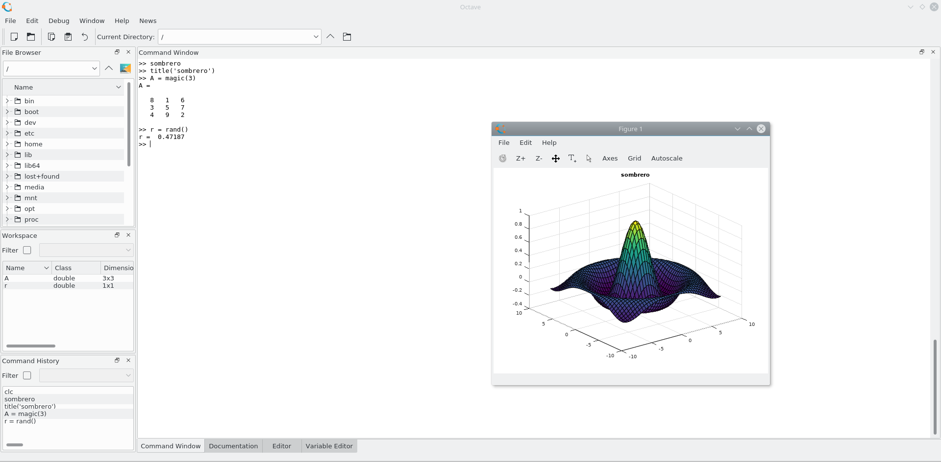 Screenshot of GNU Octave's Qt GUI (version 4.3.0+)